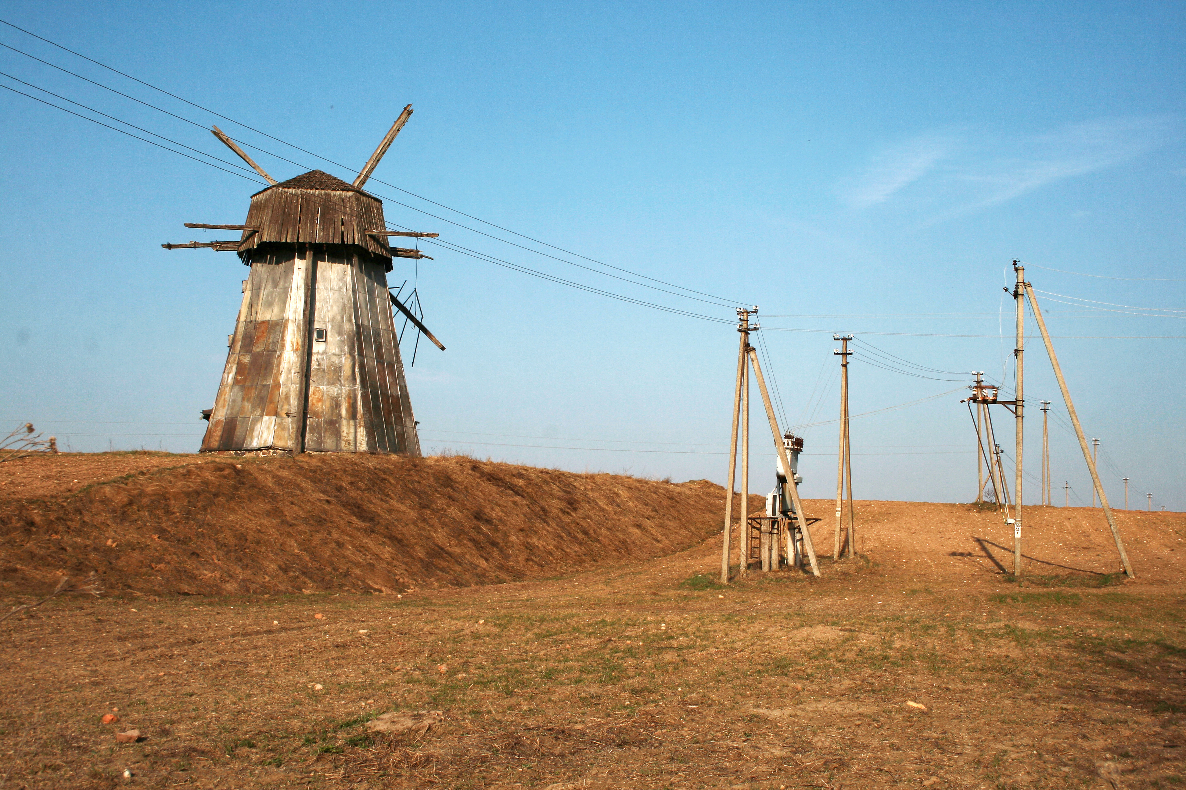 Šeduva windmill, Lithuania